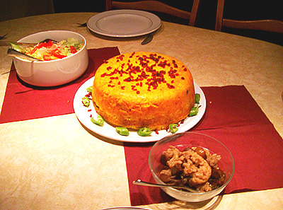 Tahchin